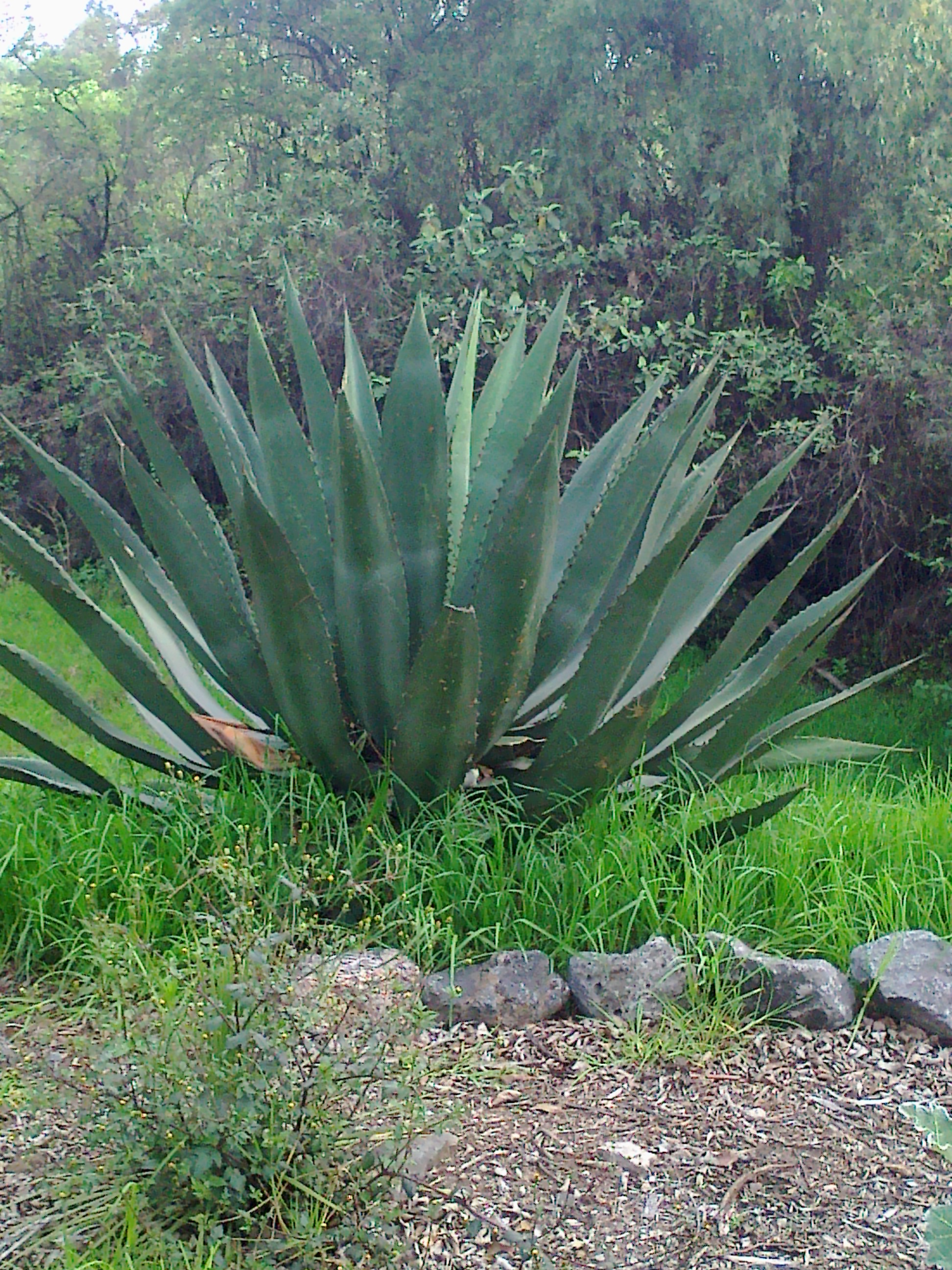 Maguey in CU